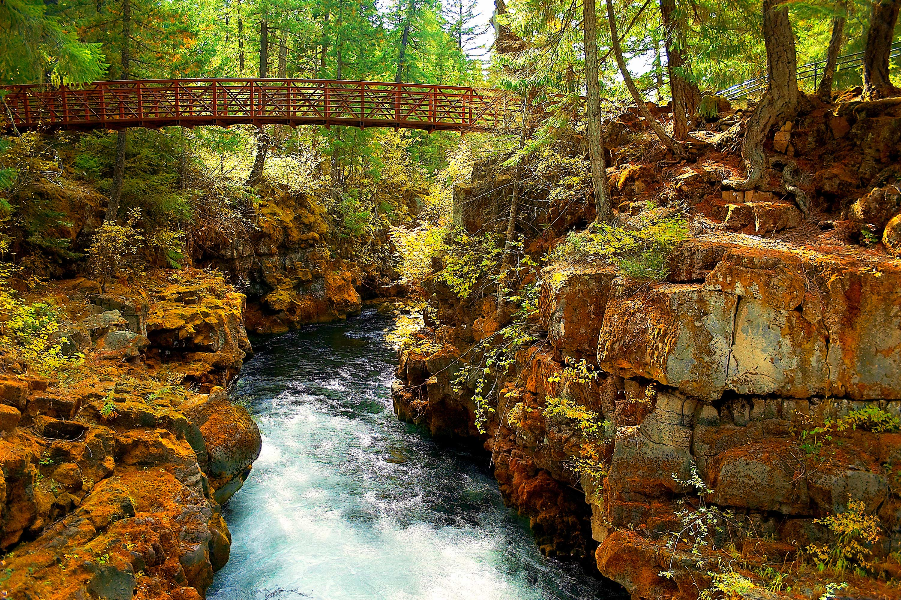 Rogue River, Oregon, USAPowerful Impressions